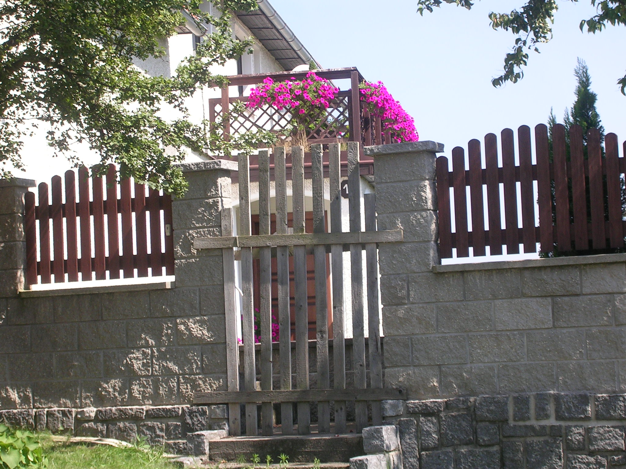 Sedlčany-Třebnice, Příbram District, Central Bohemian Region, the Czech Republic.